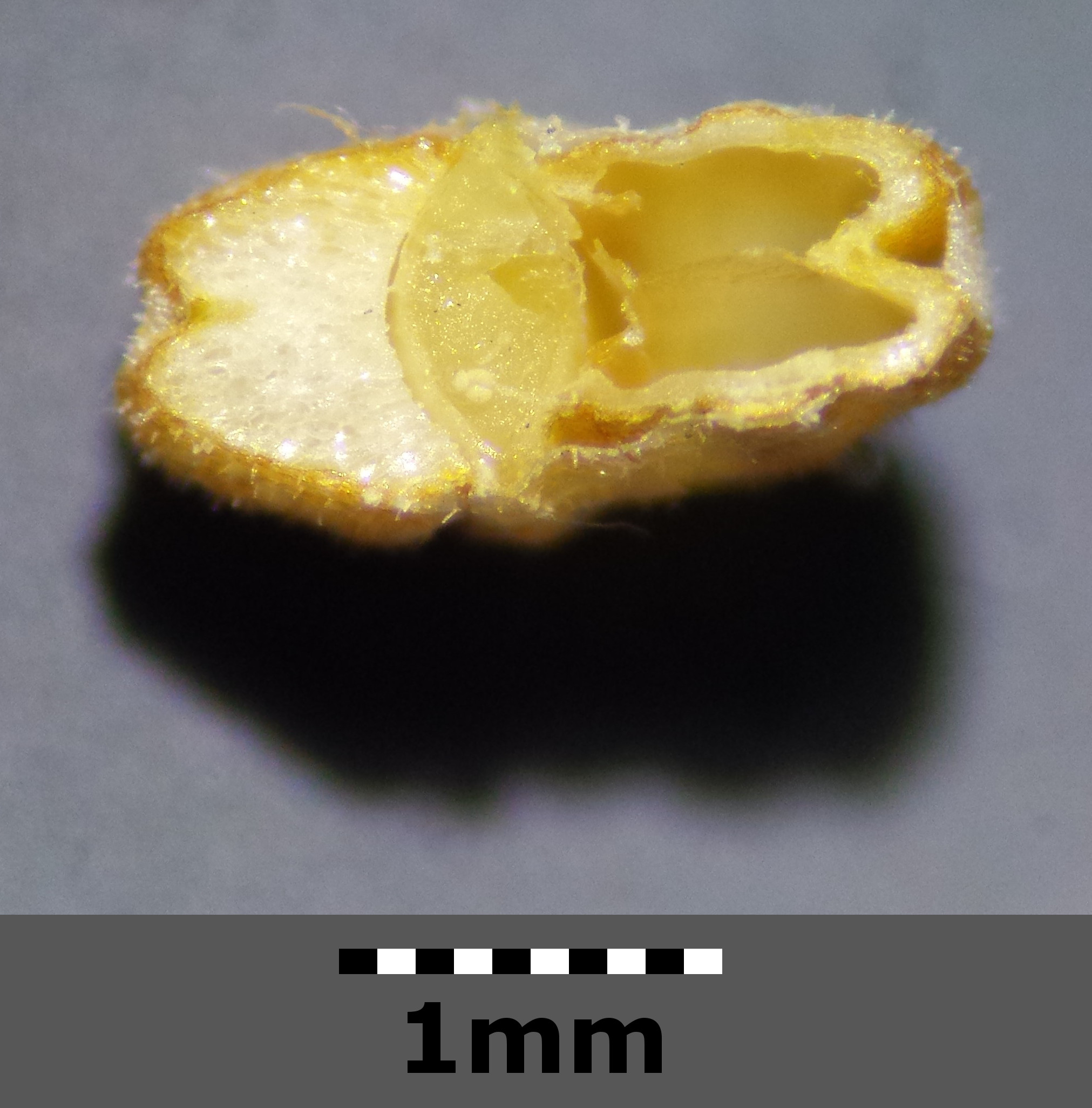 Fruit, cut through Taxonym: Valerianella locusta ss Fischer et al. EfÖLS 2008 ISBN 978-3-85474-187-9 Location: Neue Donau, Vienna-Floridsdorf - ca. 160 m a.s.l. (leg. 2015-05-11) Habitat: wayside/slope